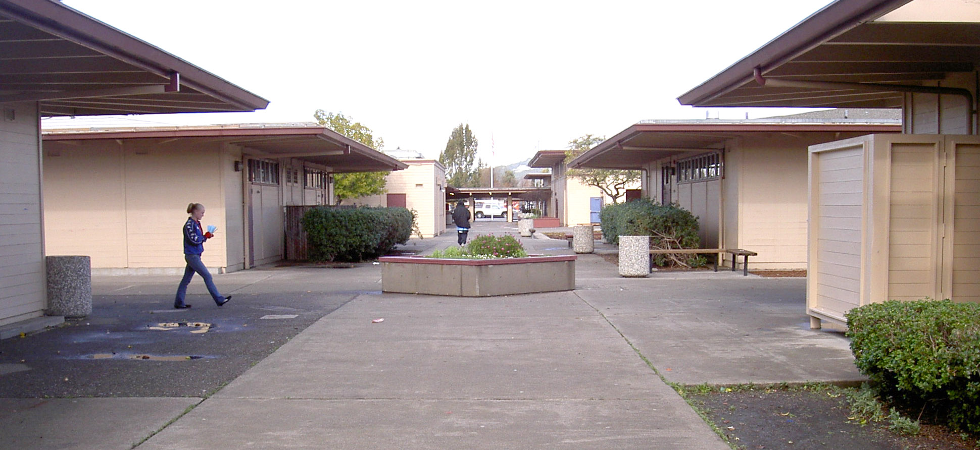 interior of Rancho Cotate High School grounds, viewed from the south